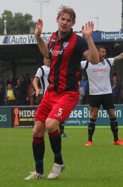 Wassmer playing for Hampton & Richmond Borough in July 2017.